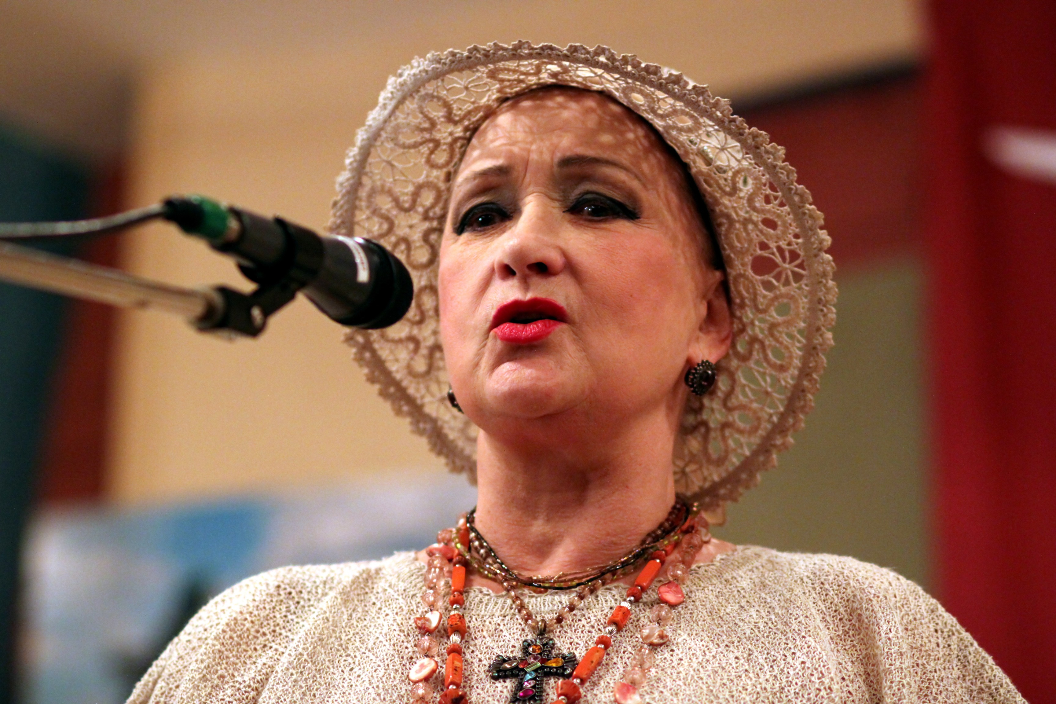 Russian actress Zinaida Kirienko